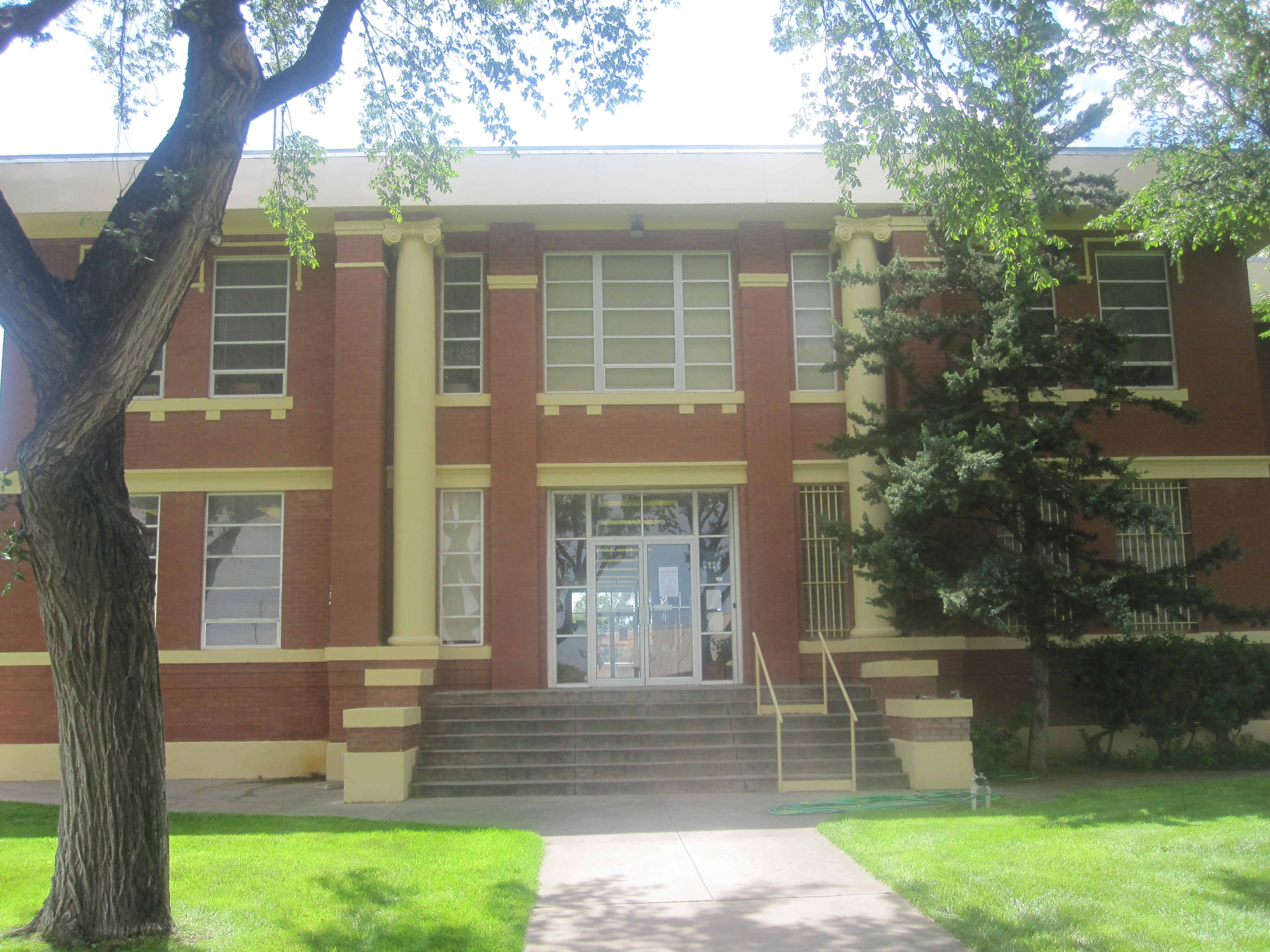 Oldham County Courthouse. I took photo with Canon camera in Vega, TX.